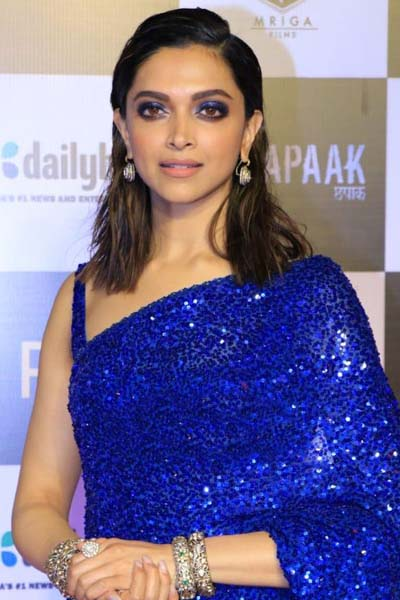 Deepika Padukone at the premiere of the movie Chhapaak.